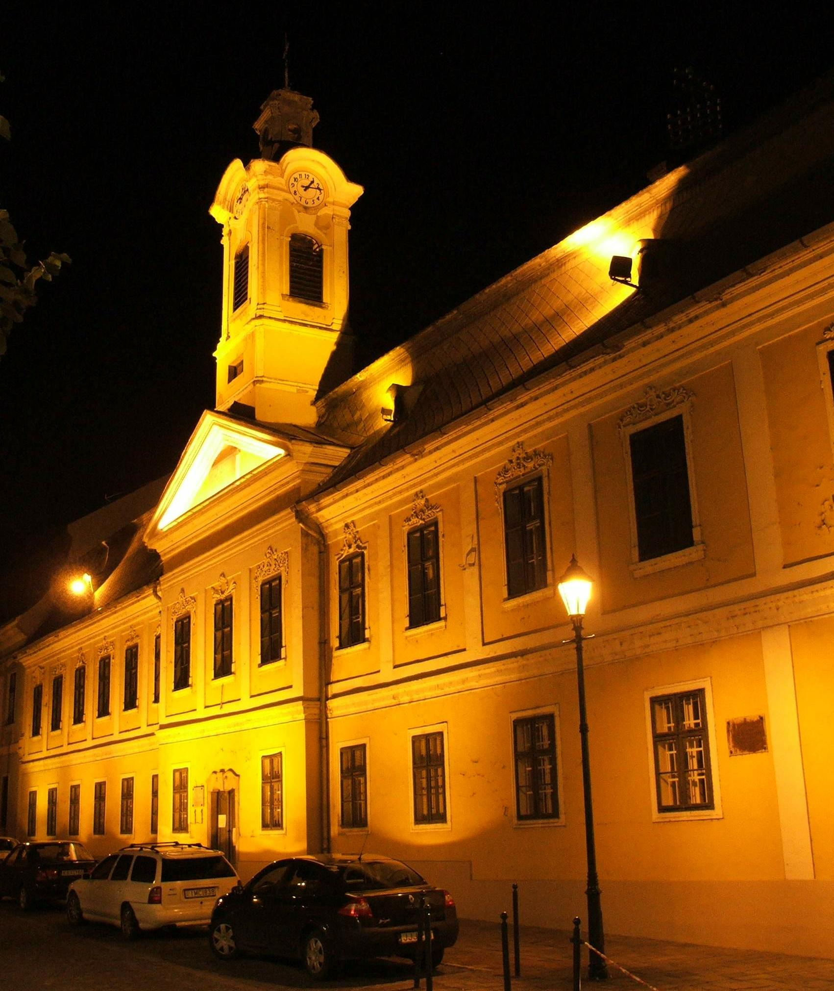 Bottyan street, Esztergom. A part of the City hall building, former home of the St. Stephen Highschool